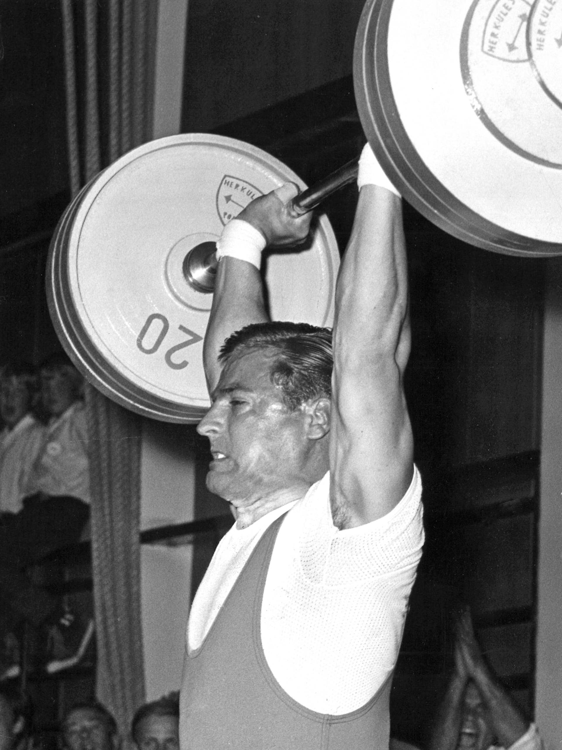 Photograph of the Finnish weightlifter Kaarlo Kangasniemi (1941–) in Pori.